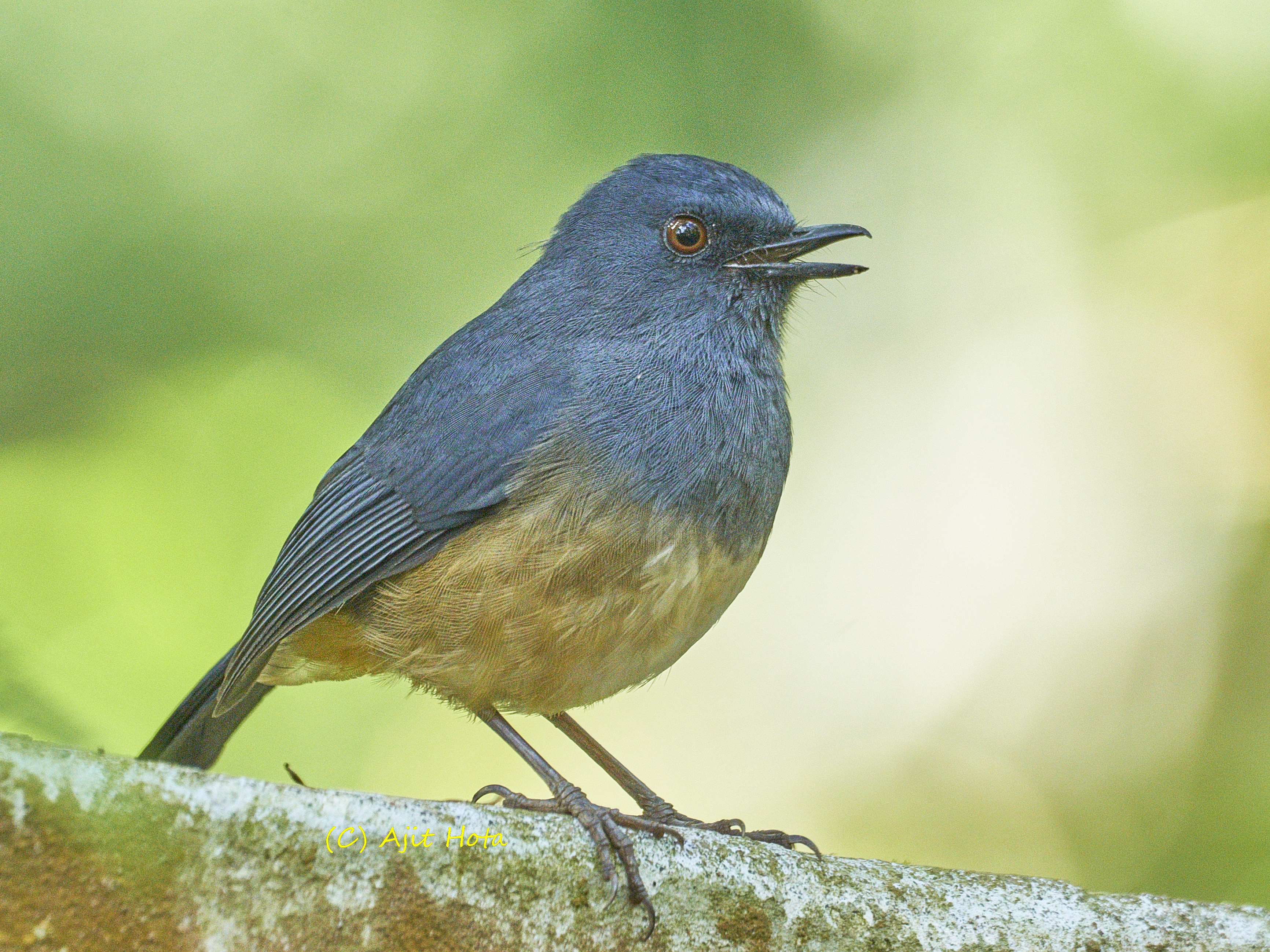 This Nilgiris beauty is an endangered species and is endemic to the Shola forests of the higher hills of southern India. This small bird is found on the forest floor and undergrowth of dense forest patches sheltered in the valleys of montane grassland, a restricted and threatened habitat.